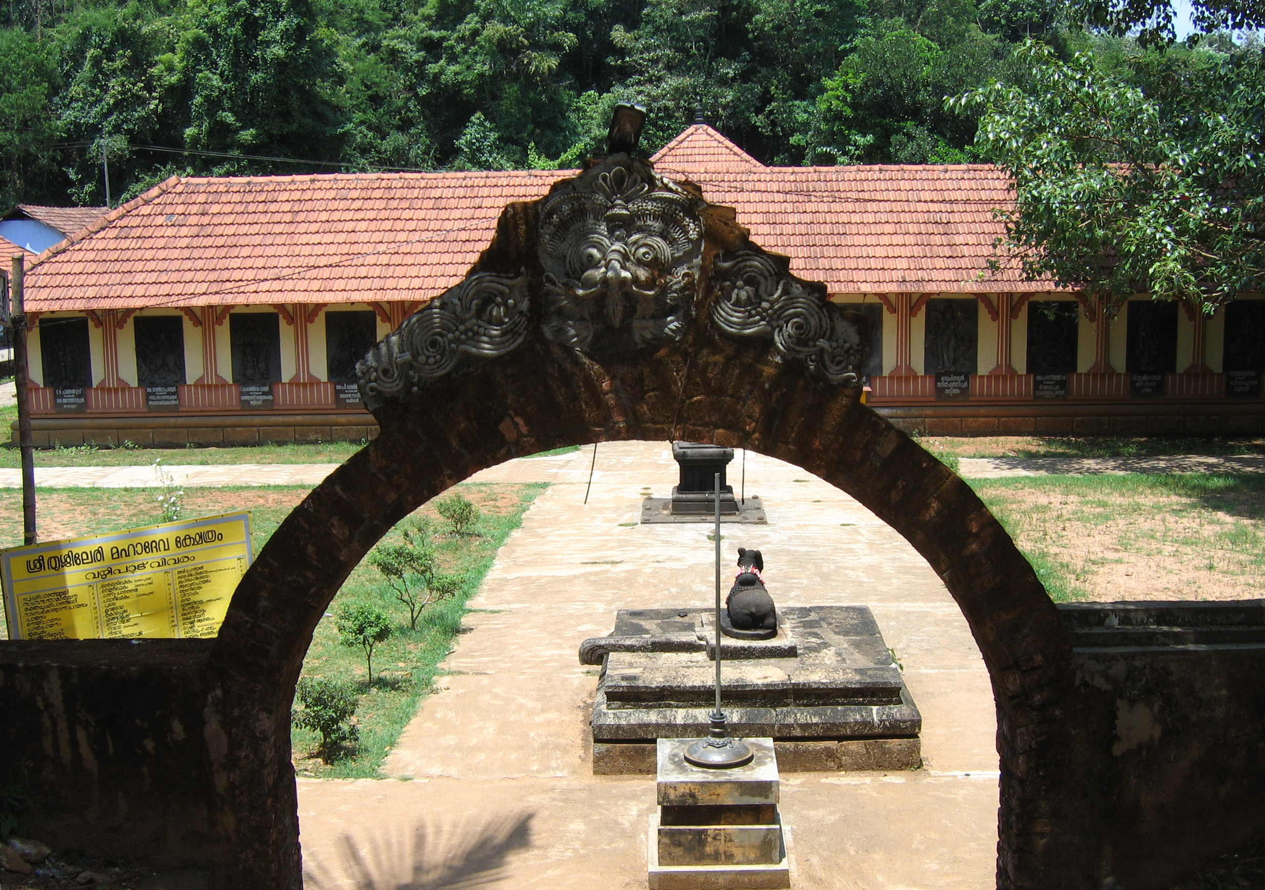 Thrissilery Siva Temple